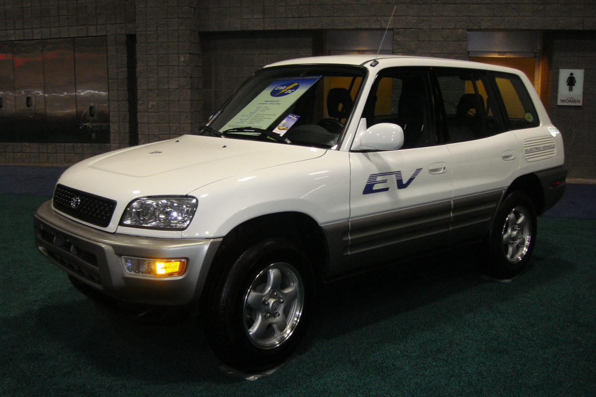 Toyota RAV 4 EV (electric vehicle) exhibited at the 2010 Washington Auto Show